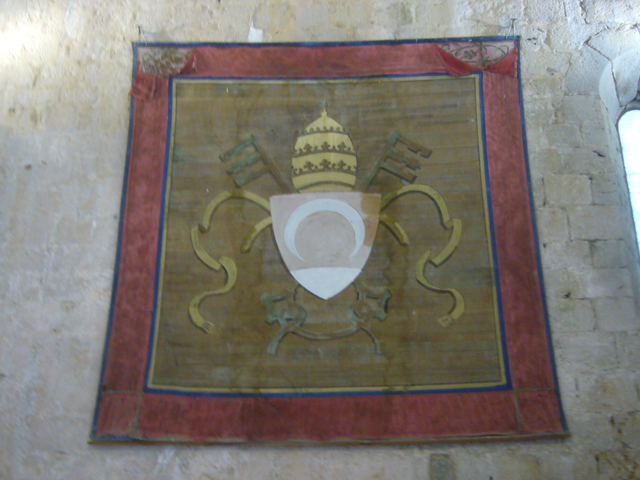 Coat of arms of Antipope Benedict XIII. Picture taken in the castle of Peñíscola